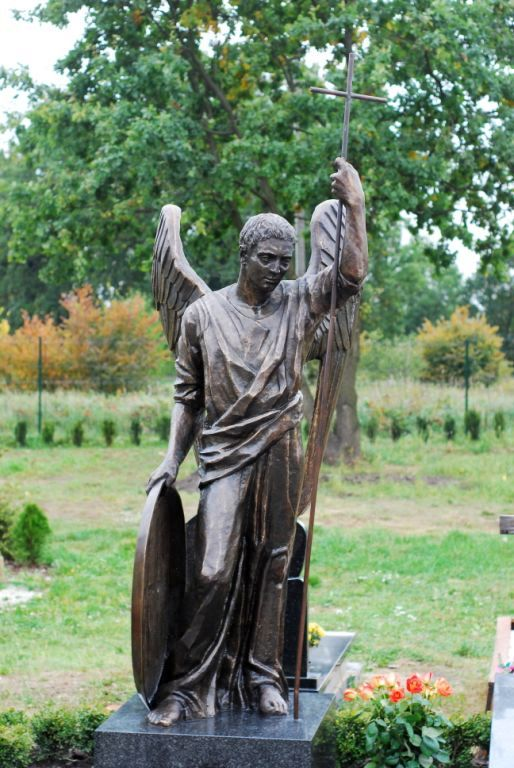 The Angel figure from the tombstone of Paweł Grabowski in Poznań, by Małgorzata Kopczyńska-Matusewicz, 2008